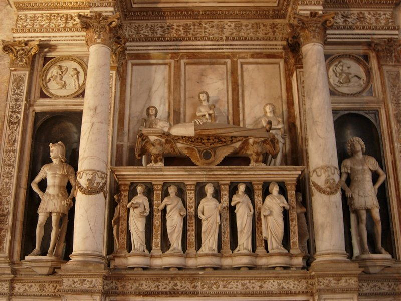 see abovesee above